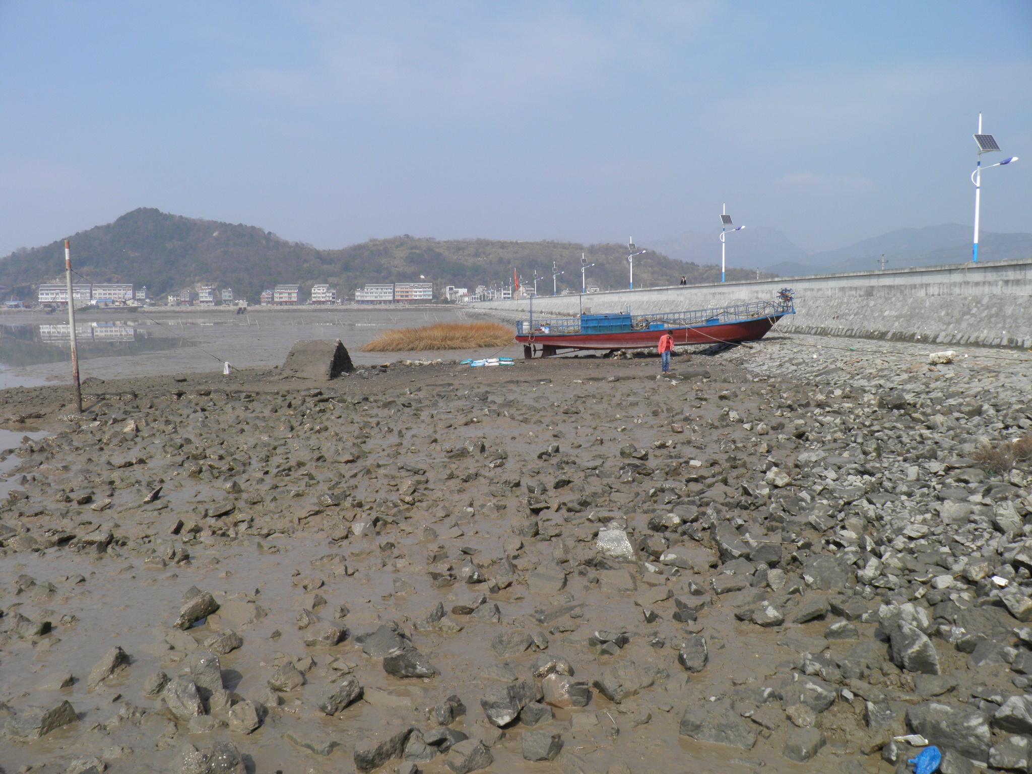 Jiangxia Tidal Power Station tidal barrage, Yueqing Bay, Wenling, Zhejiang, China